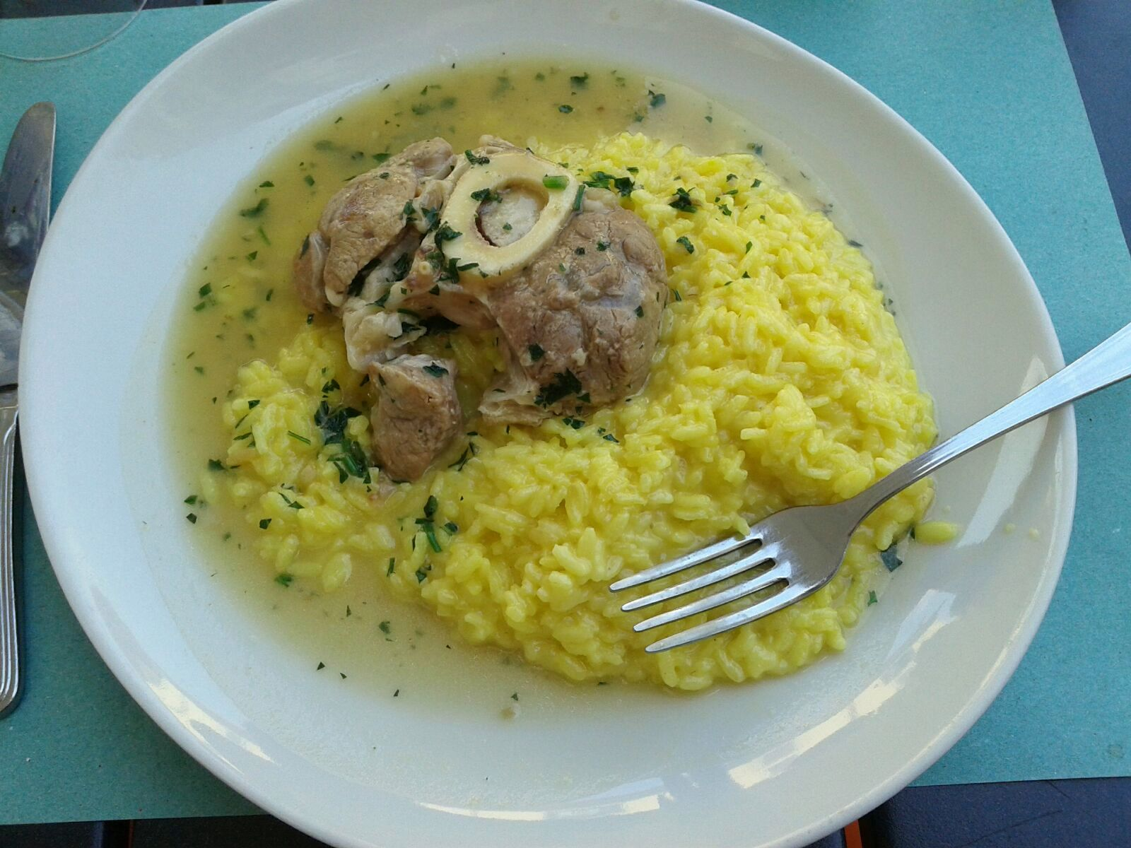 ossobuco with risotto milanese style